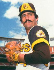 Professional baseball player Rollie Fingers